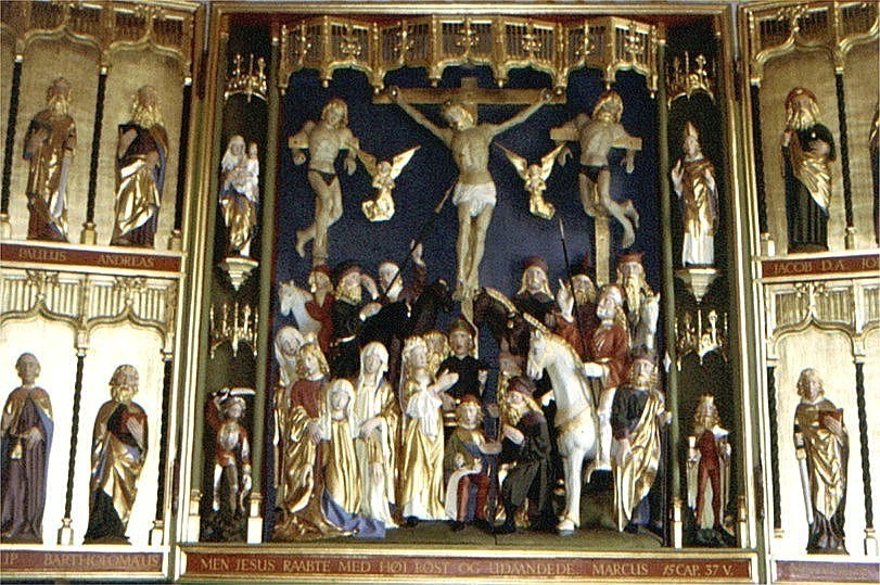 Egtved Kirke (church) in Denmark. Altar by unknown master from apr. 1500.